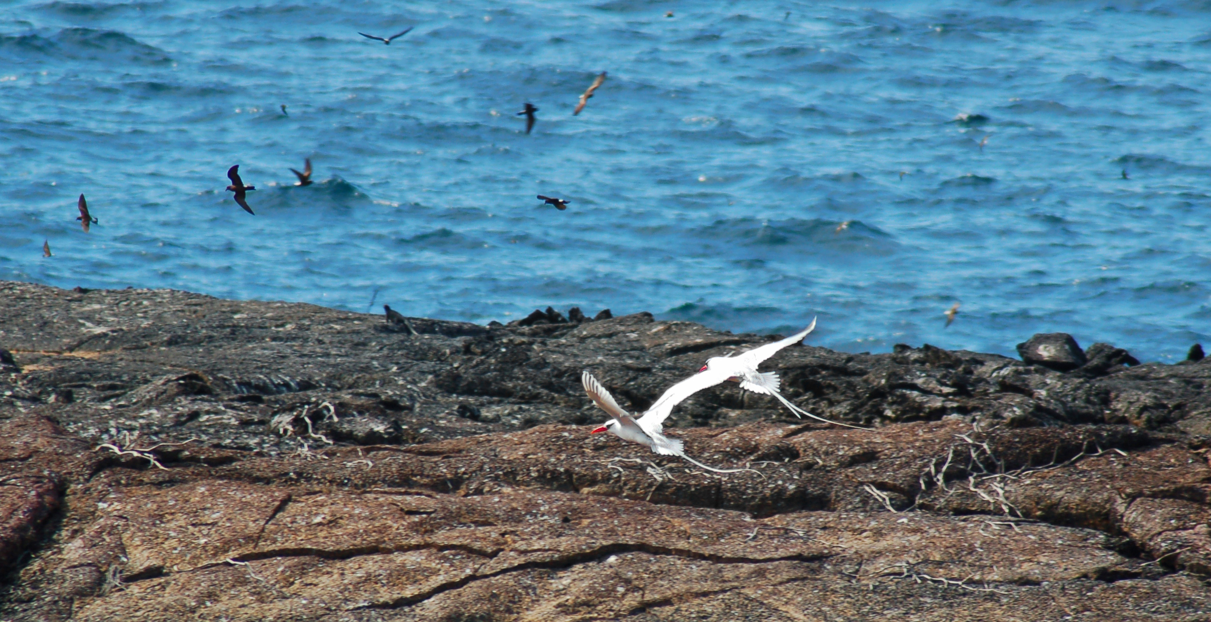 Red-beaked tropicbirds